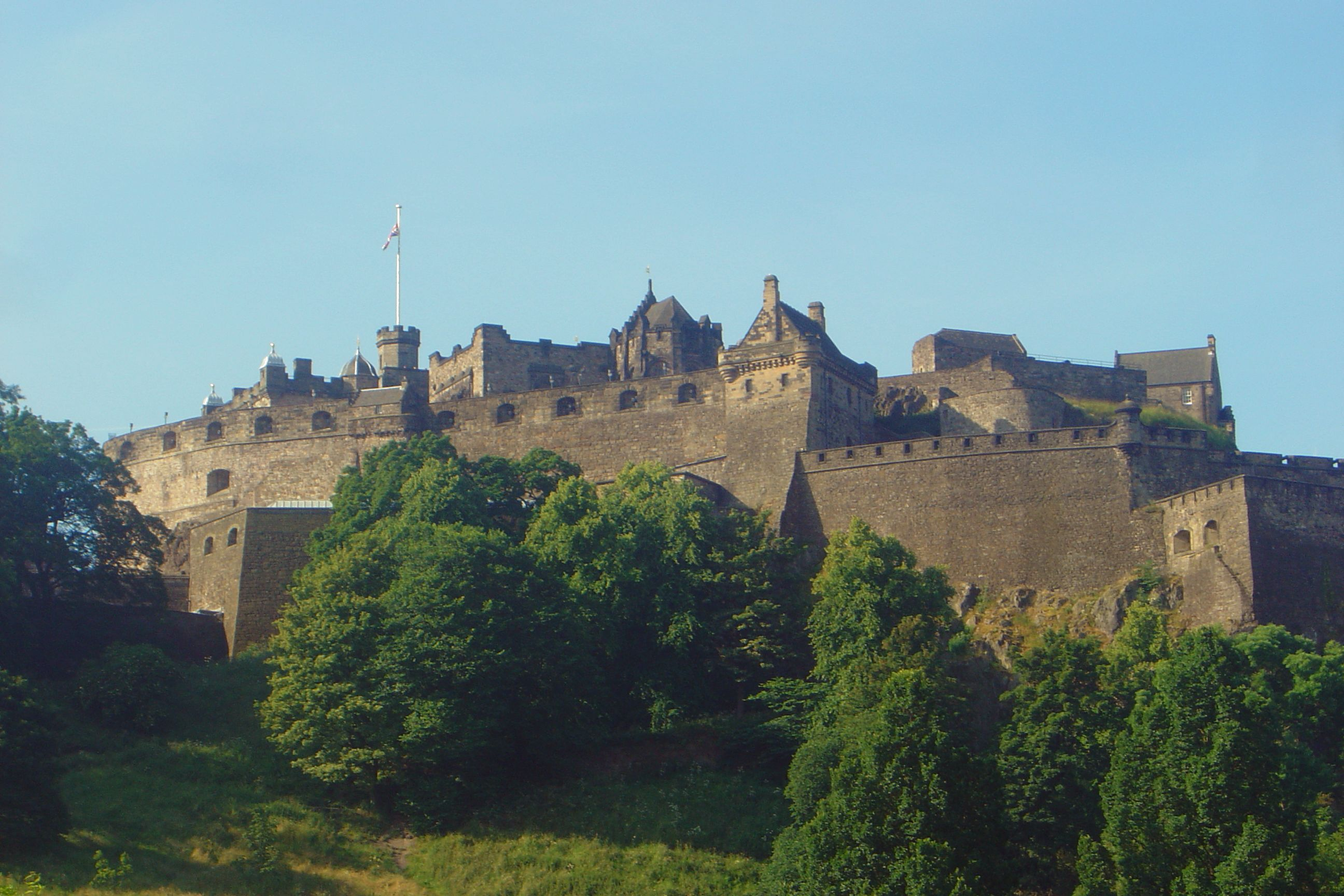 Edinburgh Castle seen from Princes Street